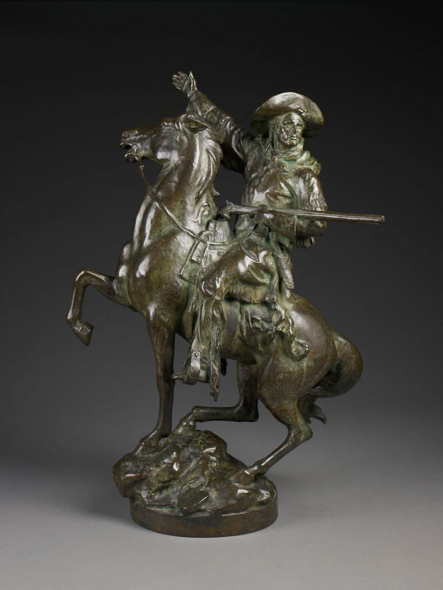 A bronze figure of Kit Carson by American sculptor Frederick William MacMonnies. Made at the Roman Bronze Works, Brooklyn, NY.